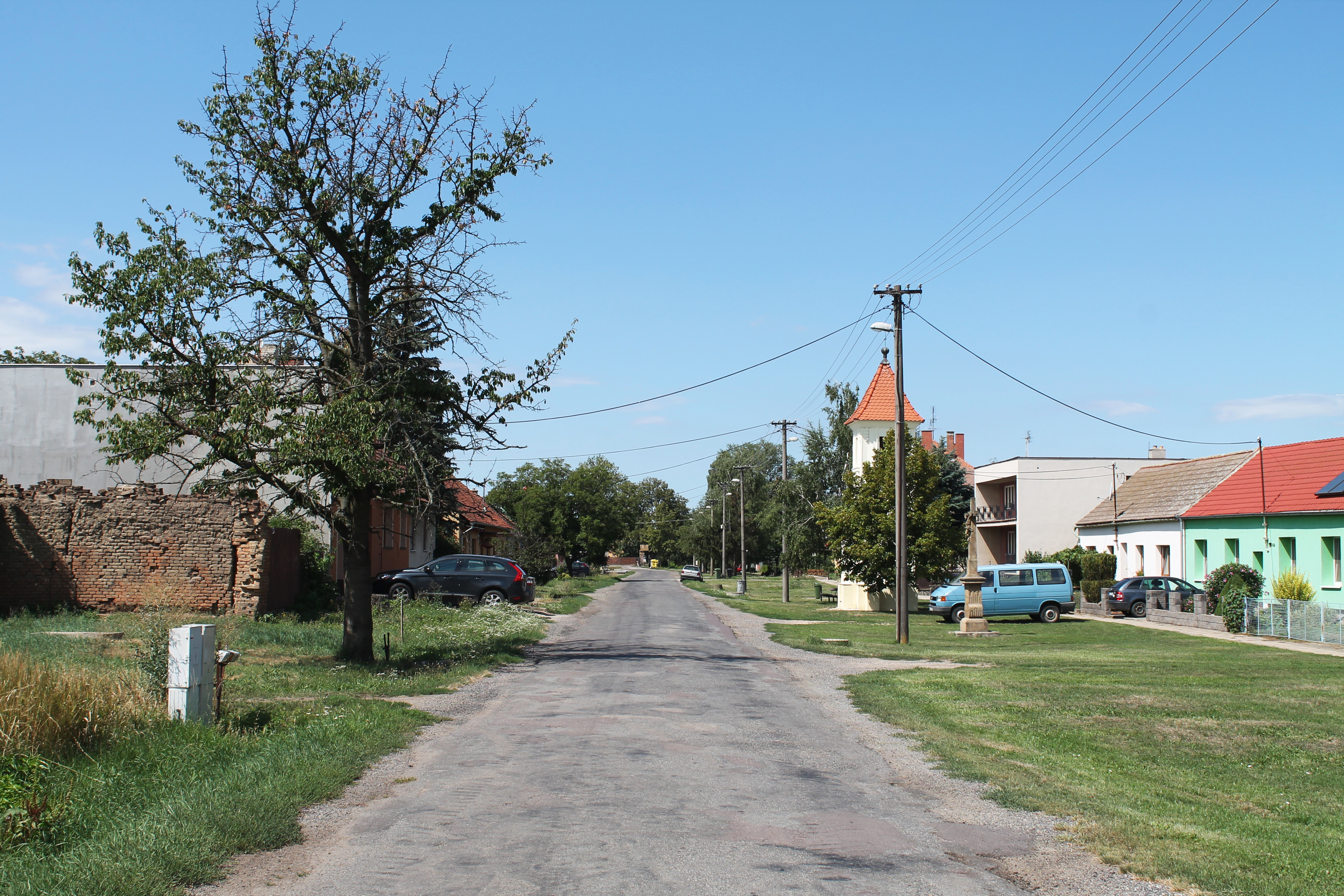 Kašenec, Miroslav, Znojmo District, Czech Republic